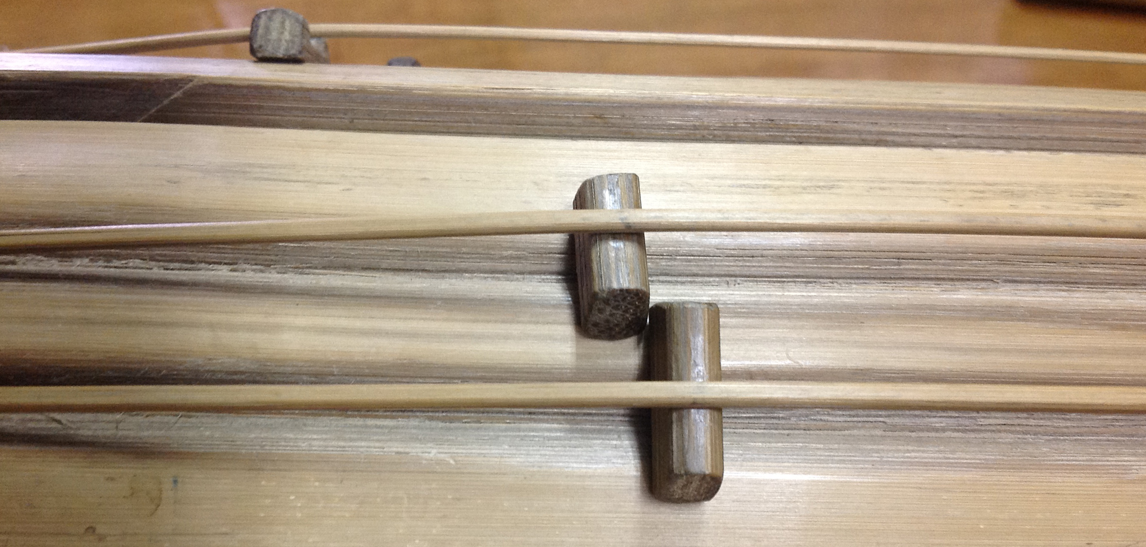 A Kolitong, a bamboo string instrument found in the Philippines. The instrument in the picture is from the University of the Philippines College of Music, Center for Ethnomusicology, Diliman, Quezon City, Philippines.